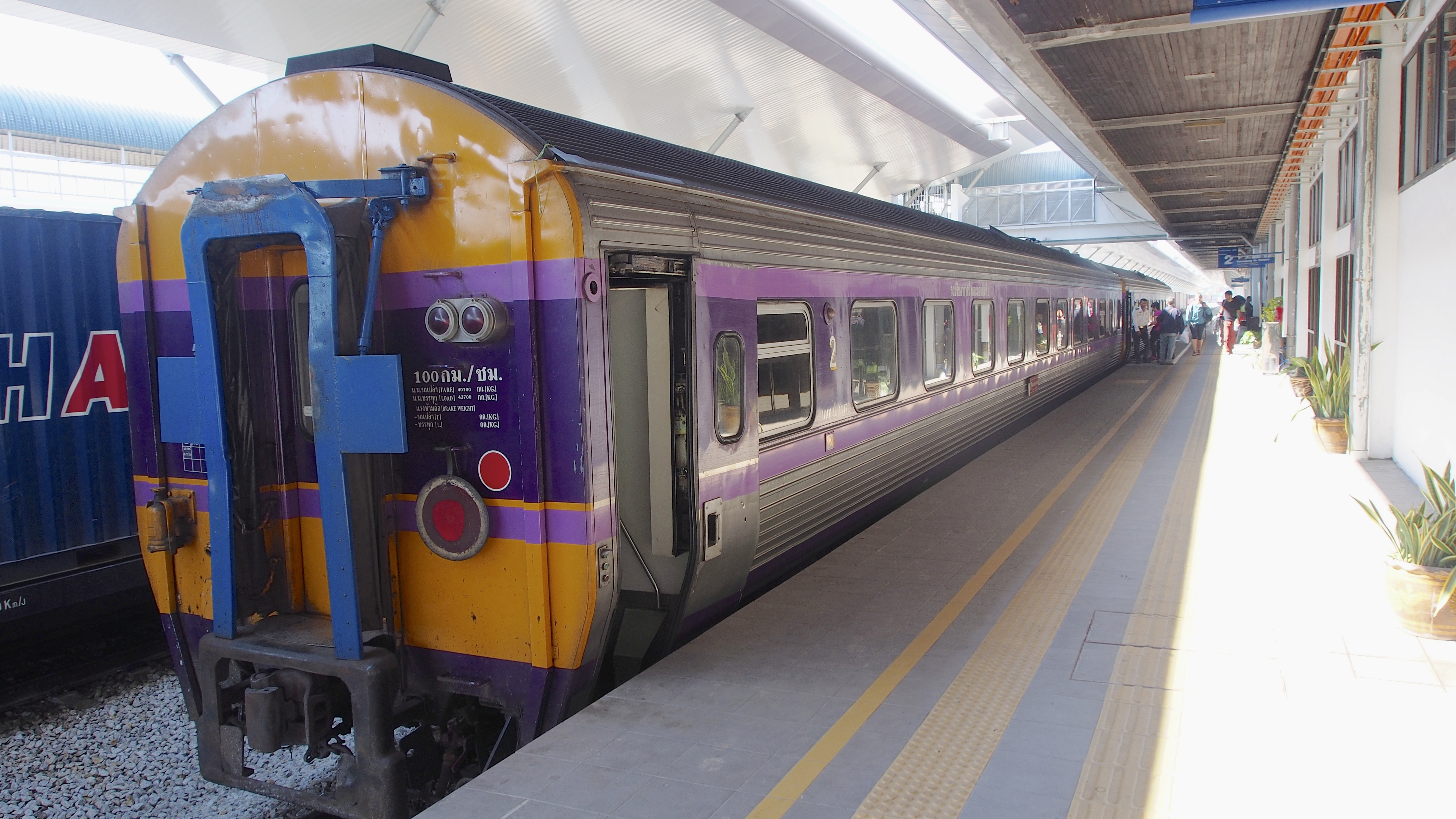 Two 2nd class sleepers from Bangkok operate thru to Butterworth Malaysia. Malaysian customs take place at Padang Besar.